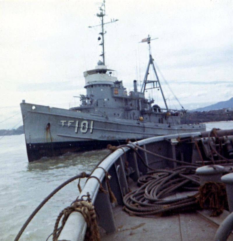 USS Cocapa in Vietnamese waters assisting USS Lipan in freeing a grounded LST. Taken from deck of the Lipan.